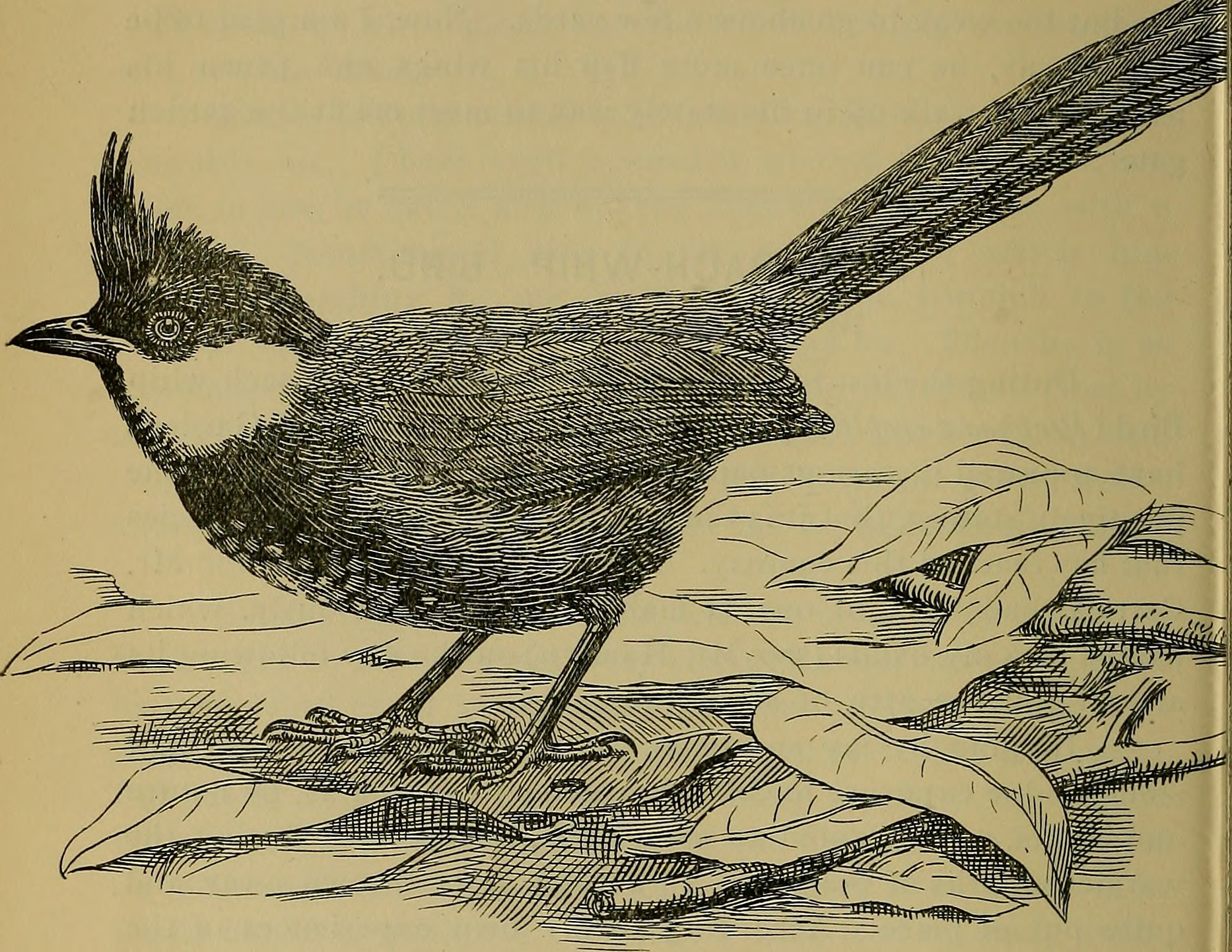 Title: The Avicultural magazine Year: 1894 (1890s) Authors: Avicultural Society Subjects: Birds; Cage birds Publisher: (Ascot, Berkshire, etc. : Avicultural Society, etc. ) Text Appearing Before Image: 86 Mr. Reginald Phihipps, And I cannot help feeling strongly that the authorities at the Zoological Gardens would have done better with their Whip Bird if they had cautiously introduced it into one of the Western Aviaries, or some other good-sized aviar^'^ with a sheltered portion and a natural outdoor attachment; for, if properly managed, it becomes a bold and impudent fellow ; and, as it has a good Text Appearing After Image: supply of self assurance, it soon makes itself at home, and can hold its own in the company of any ordinary large birds. Being of local habits, it should not be moved about from place to place, but should be left alone and allowed to settle down, so that its natural ways may be brought out. My Whip Bird arrived in excellent condition, saving a slightly clipped wing, and was loosed into the birdroom, with garden aviary attached, on June ist, and soon picked up full life and vigour. If the Zoo. bird had been similarly treated during